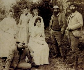 John Leslie Breck (seated) with Claude Monet's wife and stepdaughters, Monet himself (center, standing), Monet's son Jean, and Henry Fitch Taylor